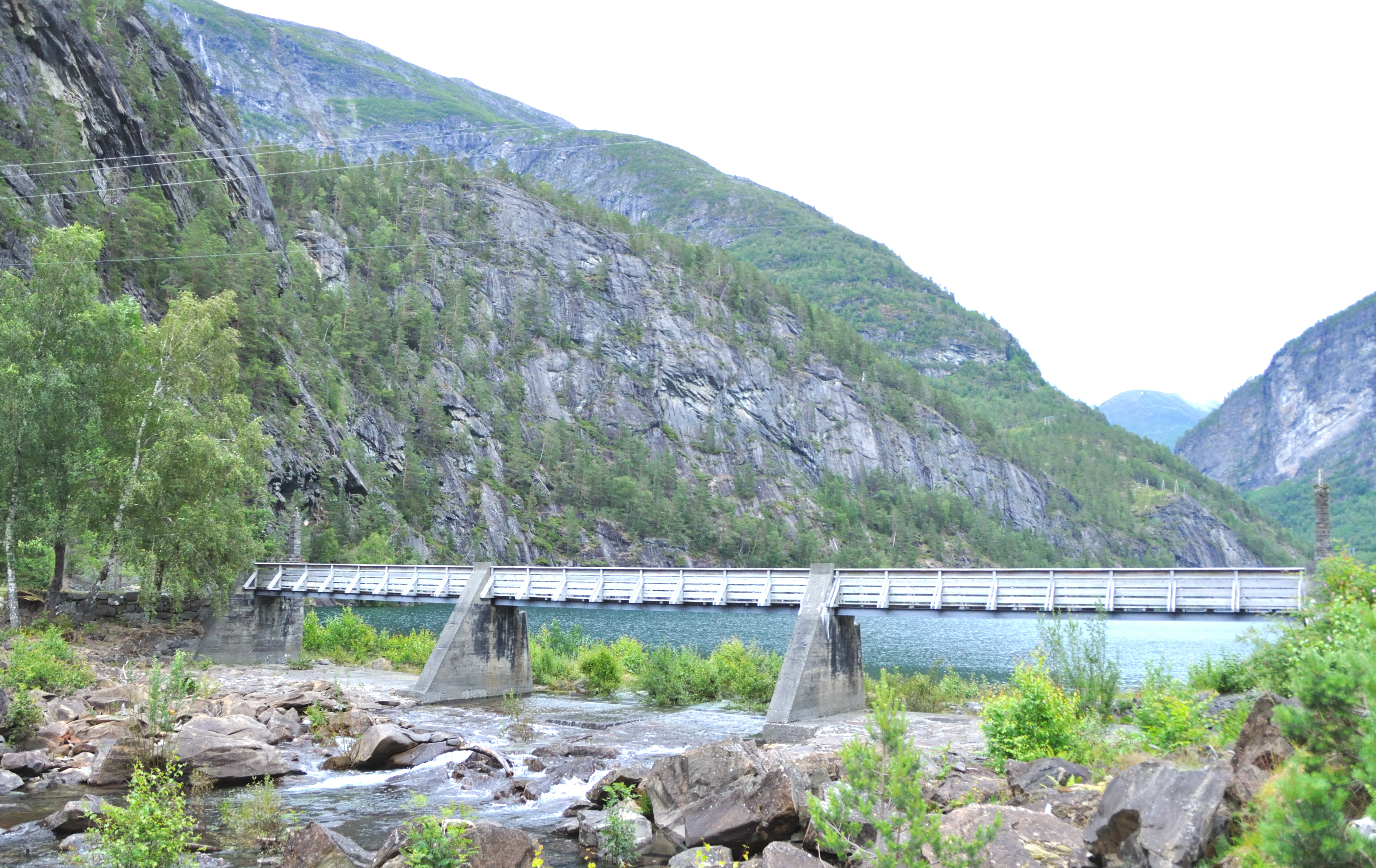 Onilsavatn lake and dam, Tafjord, reservoir for Tafjord Power plant no 1.